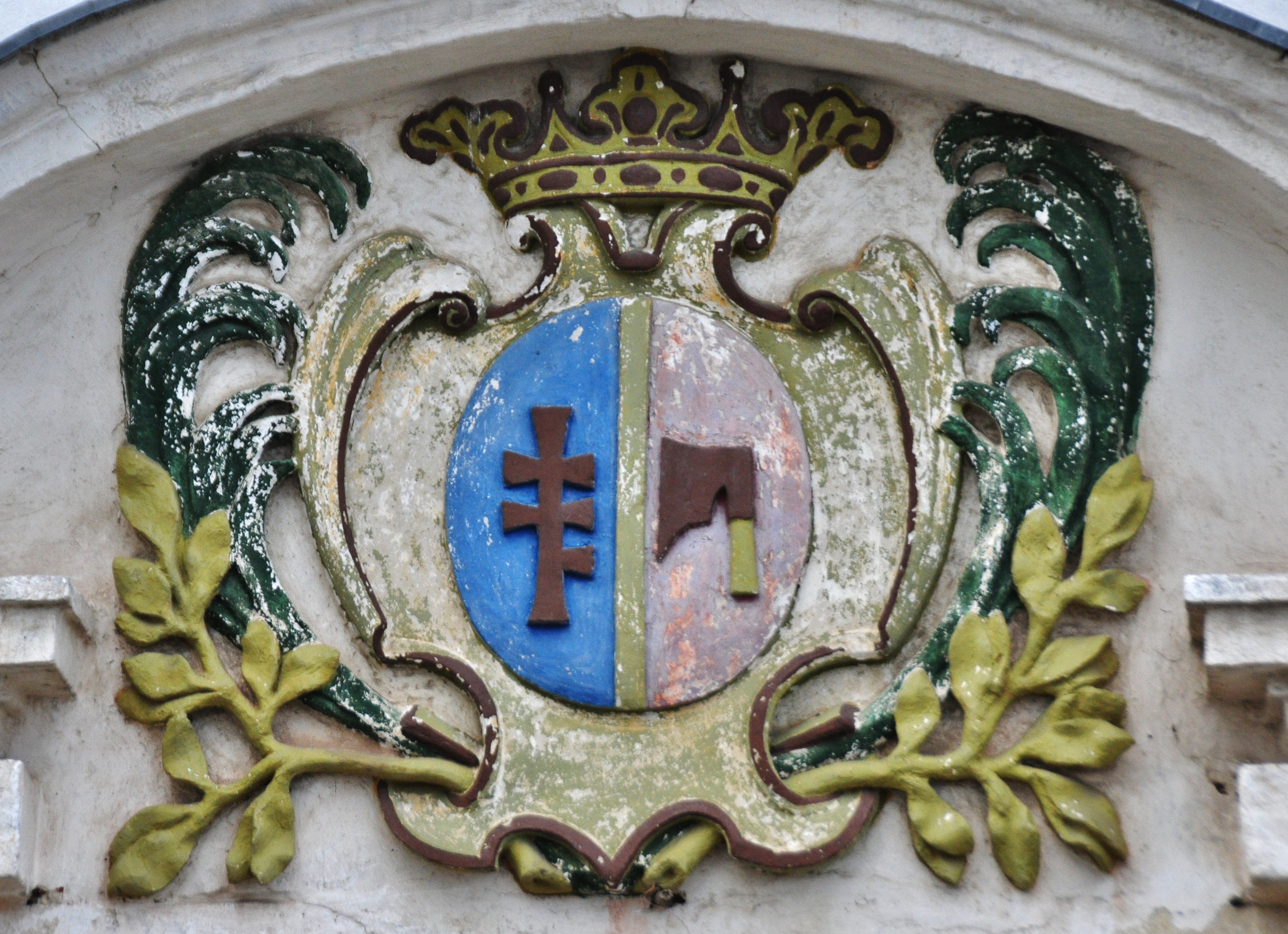 Potocki family Coat of arms on the front of the St Martin Church in Semenivka, Pustomyty Raion, Lviv Oblast